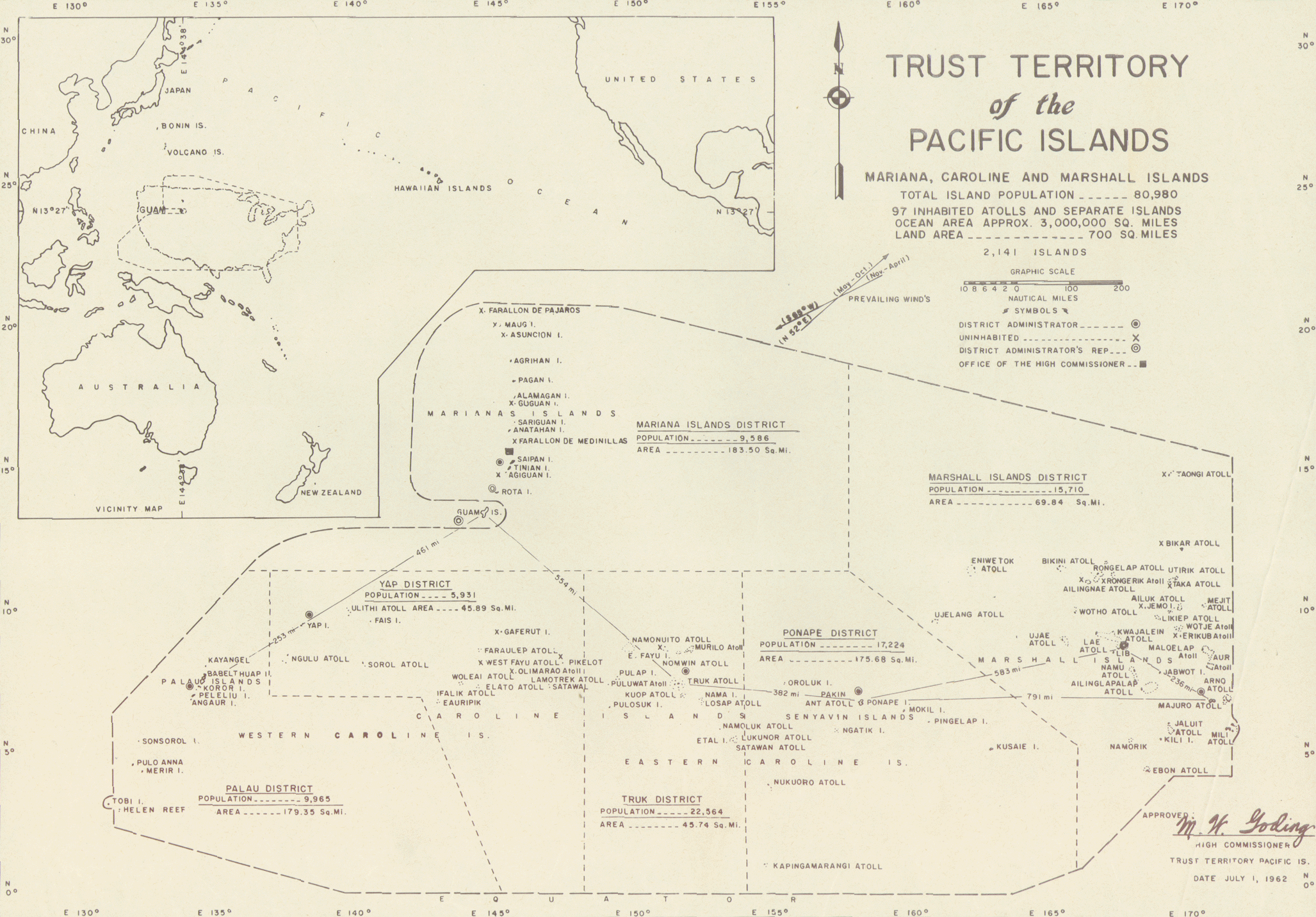 Map of the TTPI.